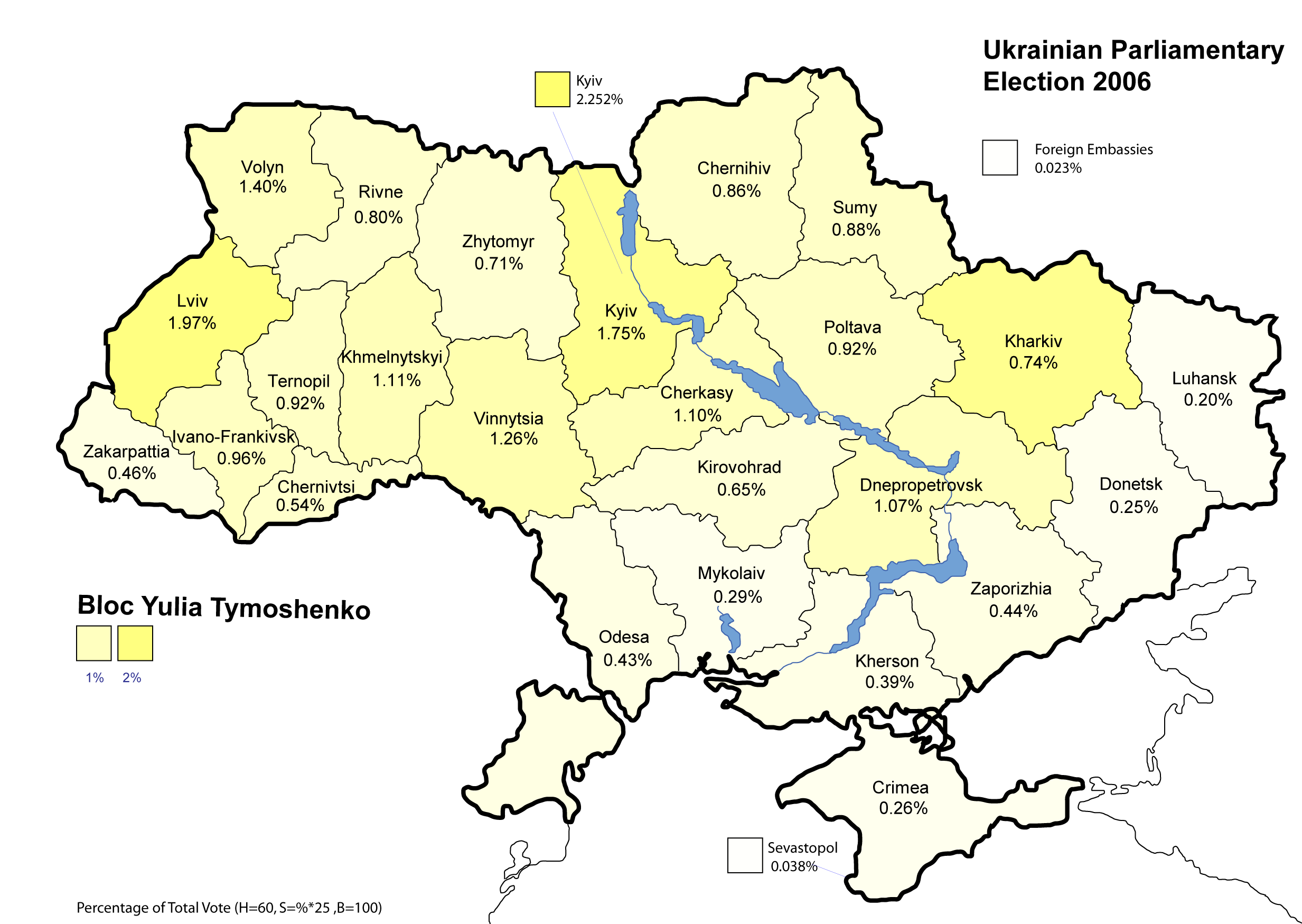 Ukrainian Parliamentary Elections 2006 Bloc Yulias Tymoshenko (verbose) percentage of total national vote (H=60, C=%*25, B=100)